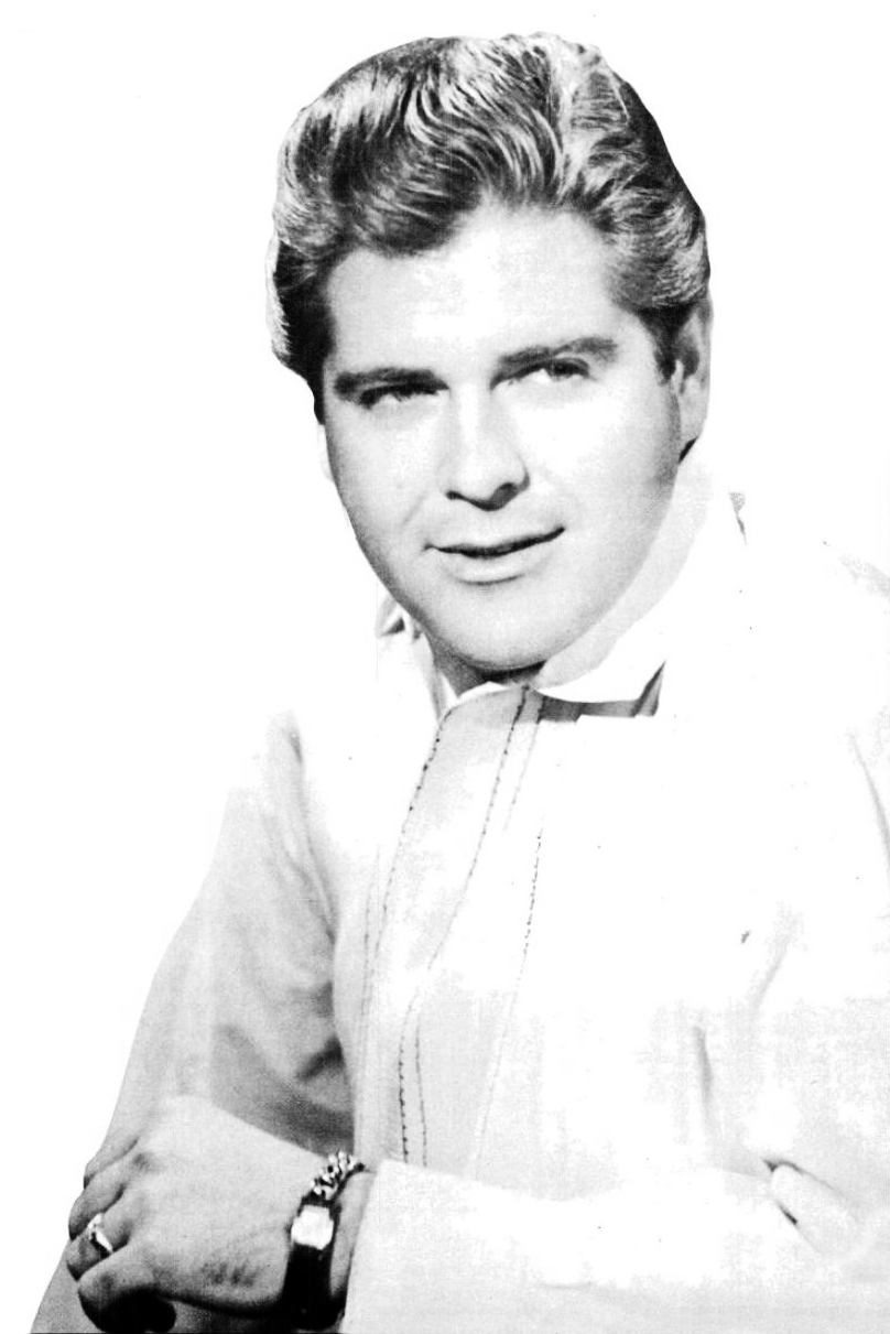 Trade ad for Dallas Frazier's single "Just A Little Bit Of You".To better adapt it to his respective Wikipedia article, the ad was cropped and cleaned in a graphics editing program. The original can be viewed at the source below.